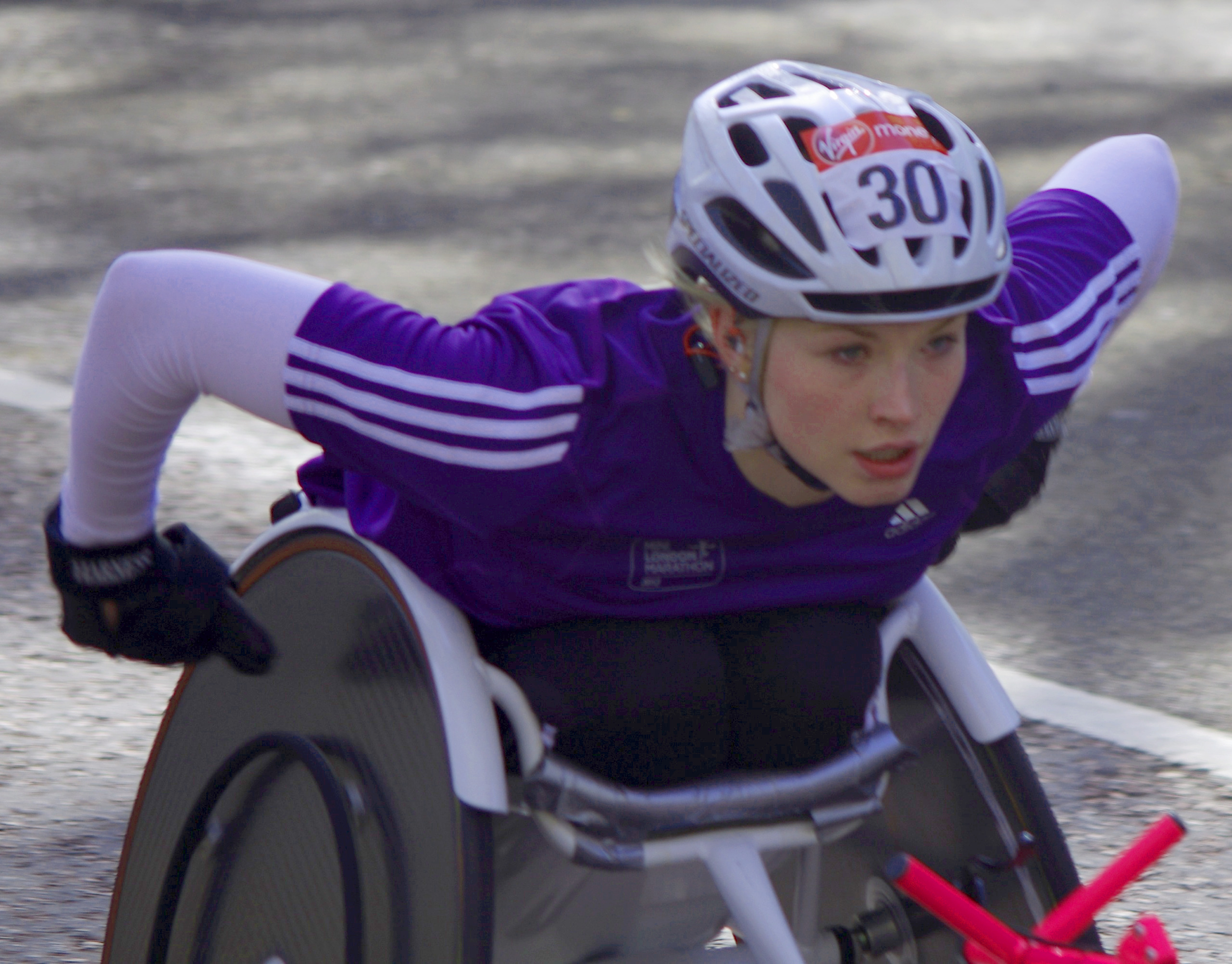 Samantha Kinghorn at the 2012 Mini London Marathon